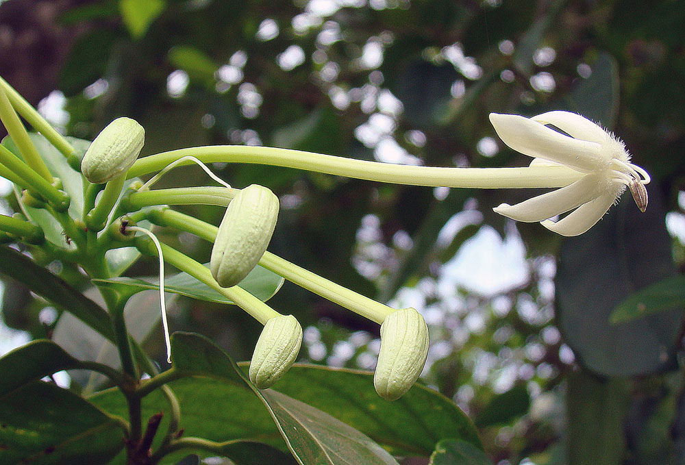 Native from southern Mexico to the Amazon, with names such as Boca de Vieja. Fruit known as Monkey Apple. Photo from Bastimentos Island, Panama. In context at